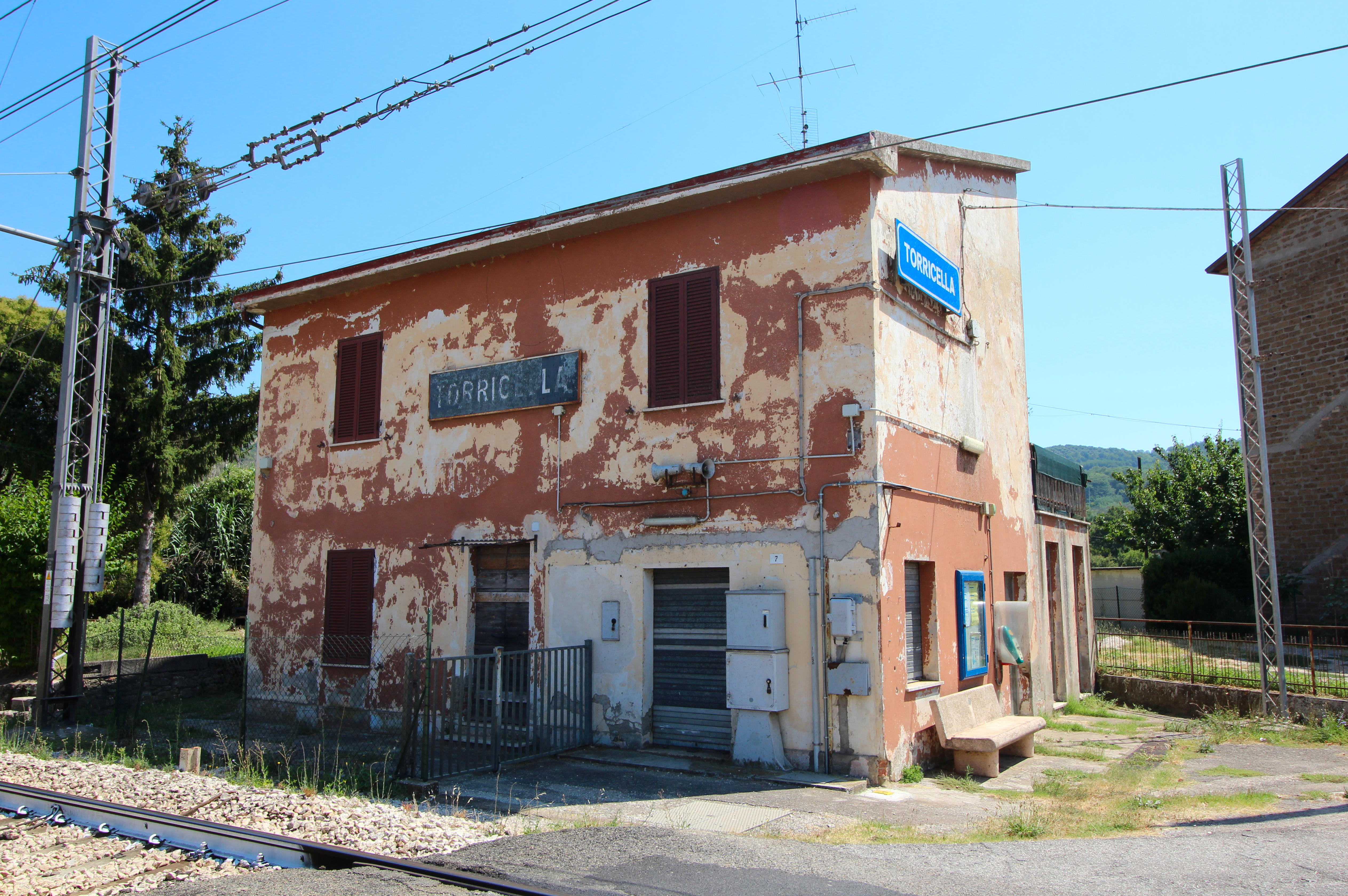 train station Torricella, Torricella, hamlet of Magione, Province of Perugia, Umbria, Italy